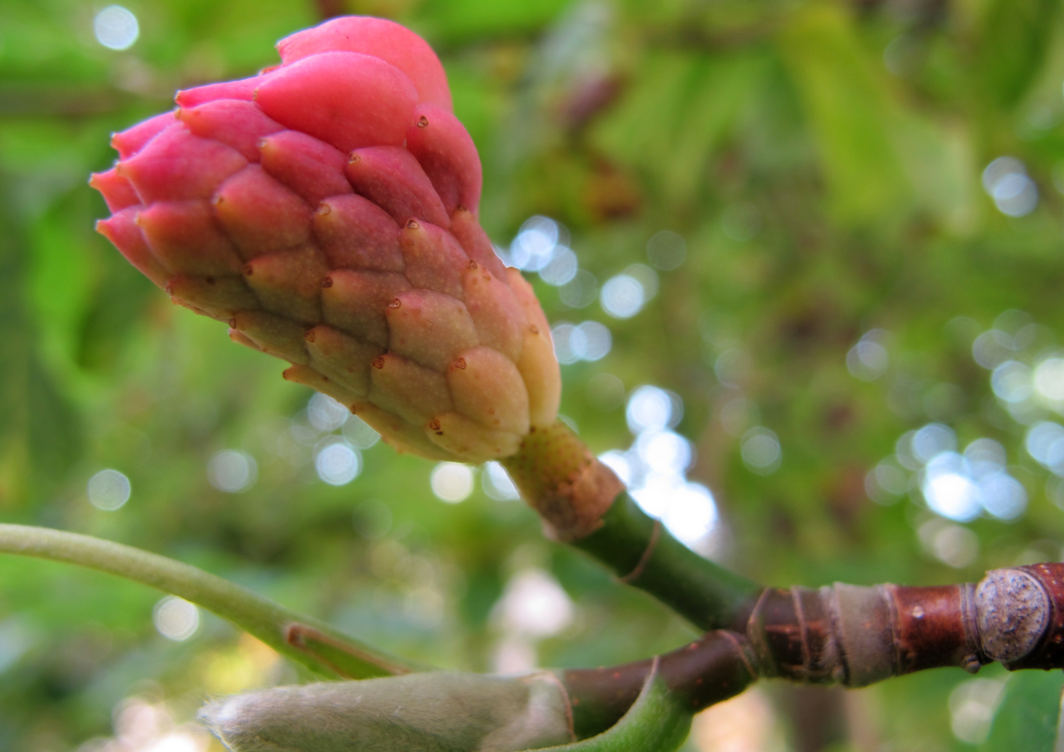 Famous tree (Magnolia acuminata) between monastery and old school in Bělá pod Bezdězem in Mladá Boleslav District, Czech Republic